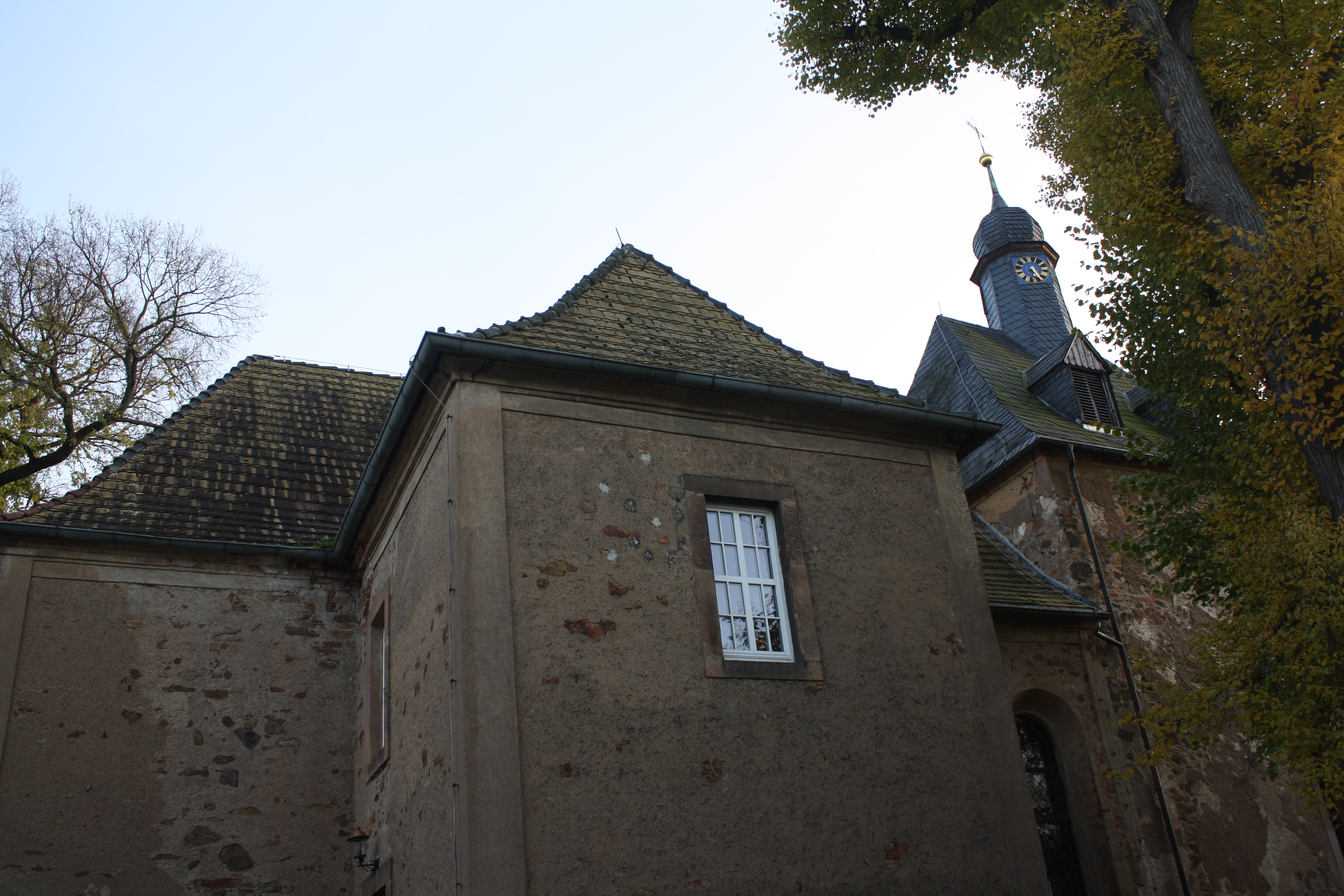 Church in Altenburg-Stünzhain in Thuringia